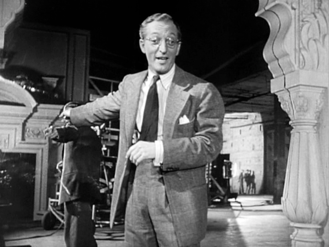 Screenshot of Everett Sloane from the Citizen Kane trailer